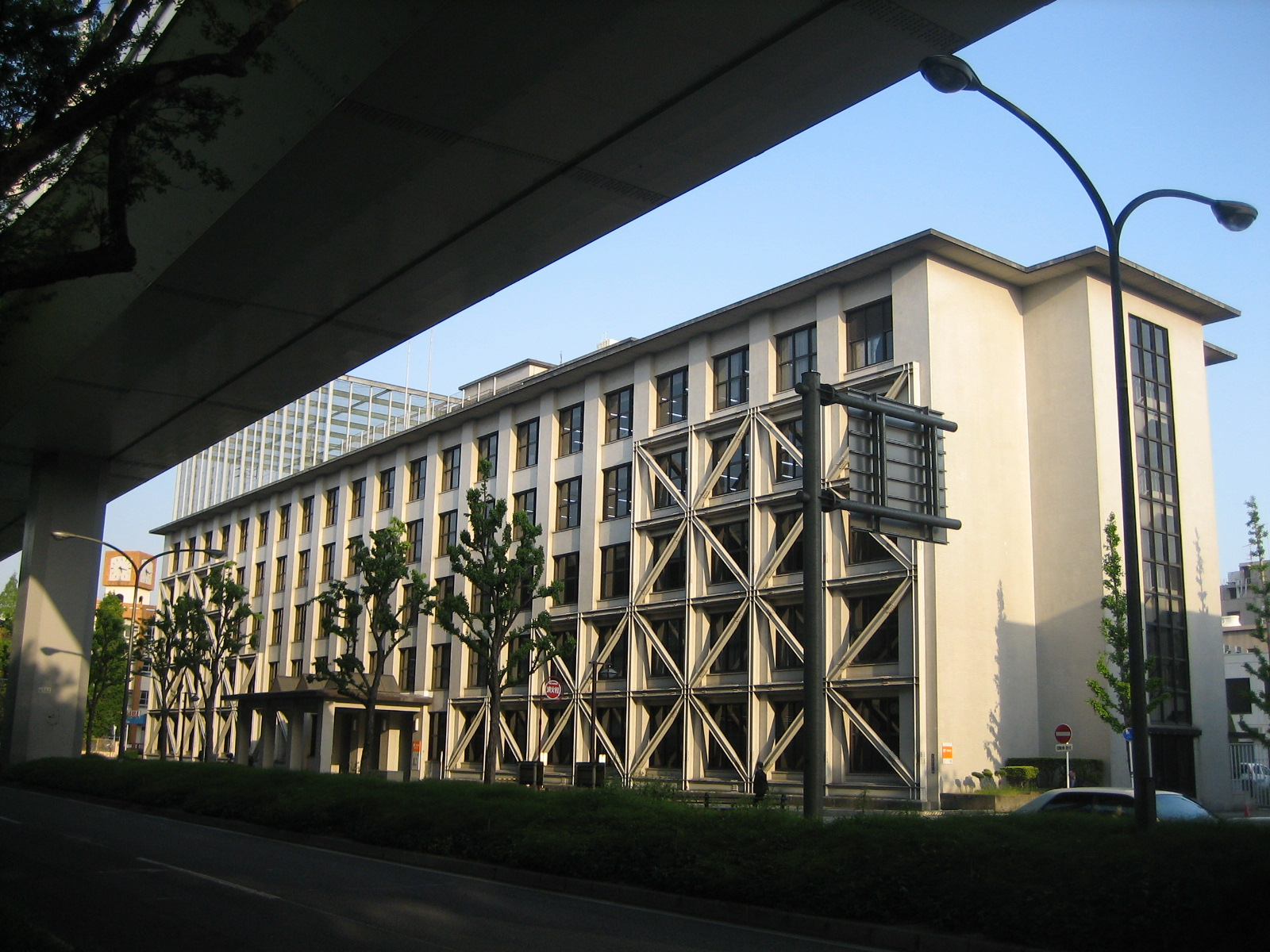 JP group Nagoya building